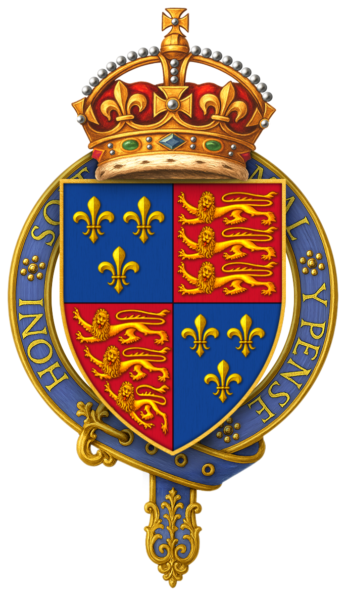 Henry VI, King of England